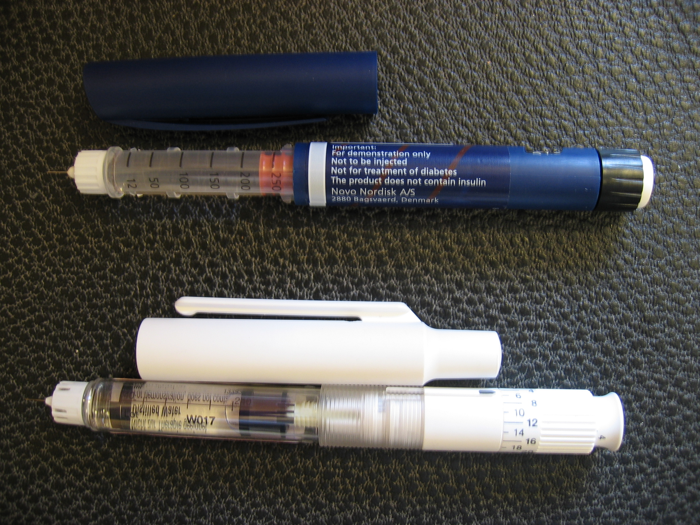 Pre-filled insulin syringe ("insulin pen"). Picture taken by PerPlex.